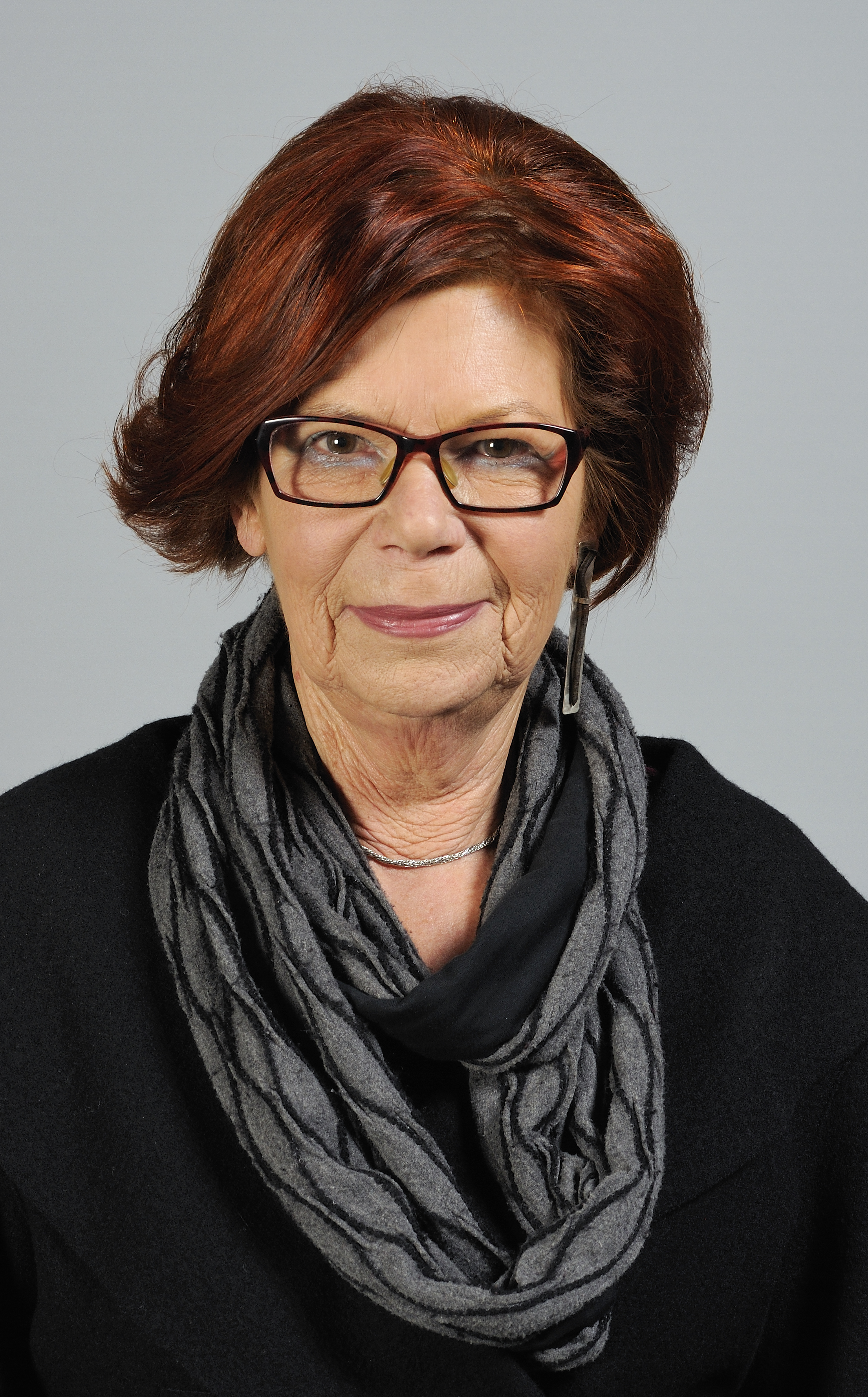 Gisela Kallenbach, Saxon politician (Bündnis 90/Die Grünen) and member of the Landtag of the Free State of Saxony (as of 2013).